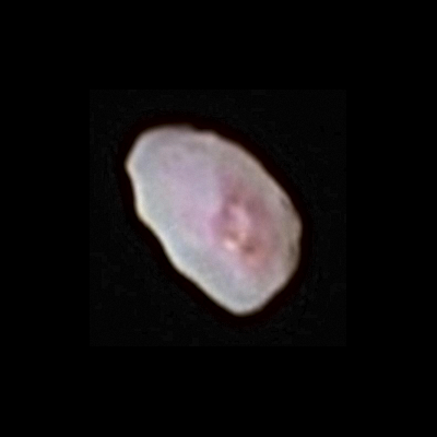 Pluto´s moon Nix